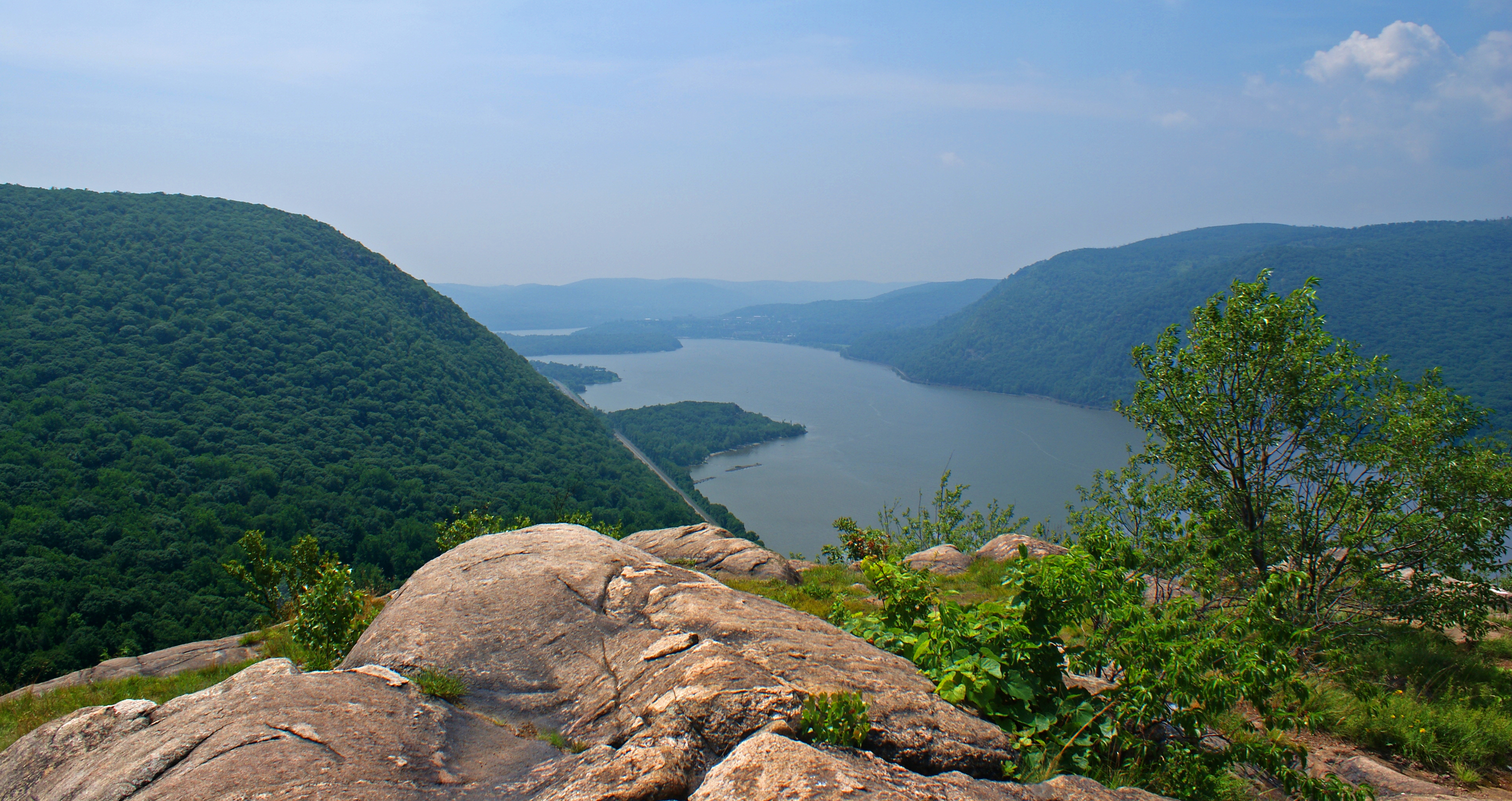 View south from Breakneck Ridge of Hudson Highlands, inlcuding Bull Hill (left) and West Point